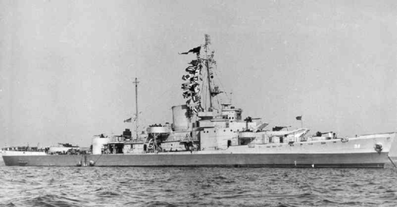 The U.S. Coast Guard cutter USS Campbell (WPG-32) in Maine, 1944. Campbell sailed as an escort for Mediterranean convoys in 1944 and saw considerable action against Luftwaffe aircraft. Note her "huff-duff" antenna abaft the stack.